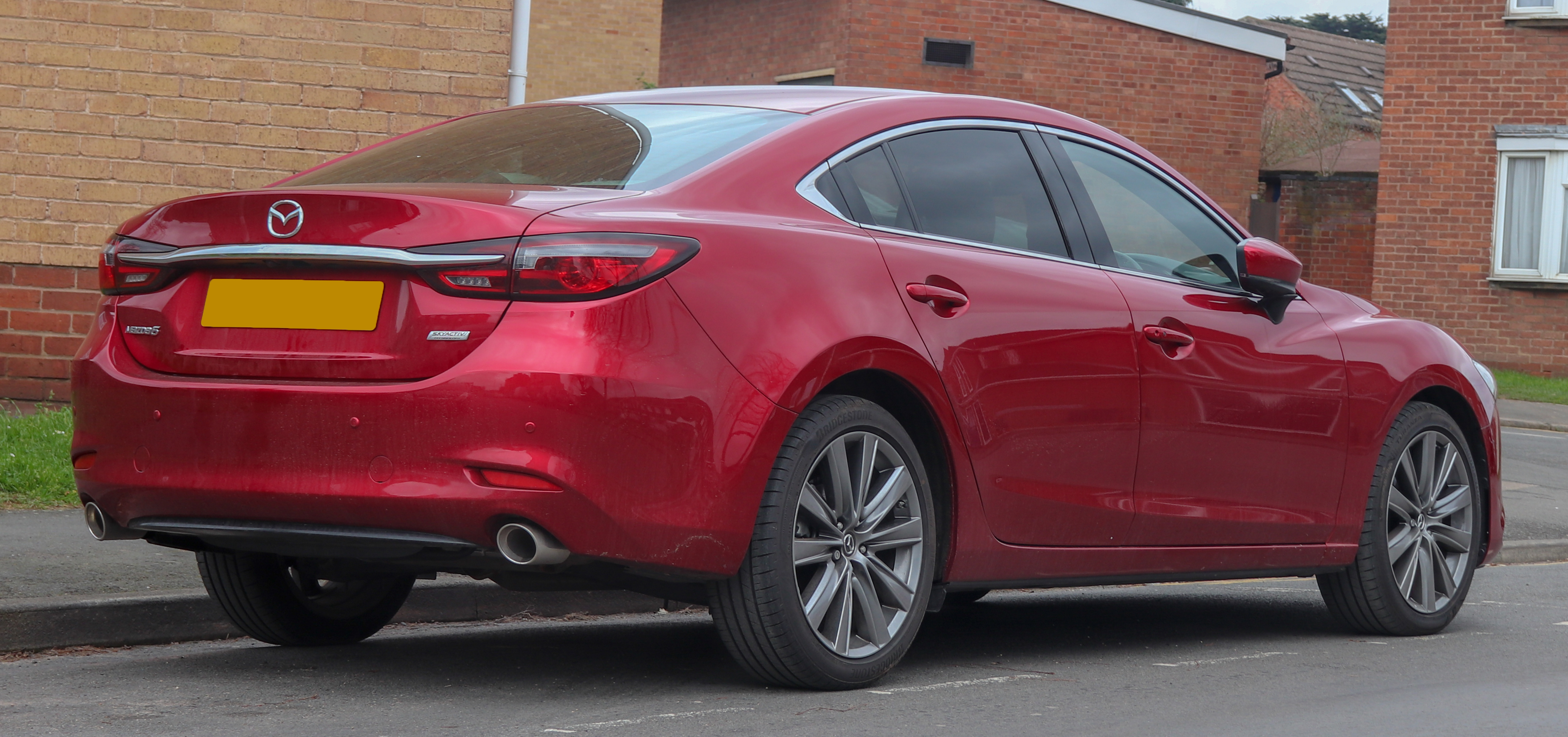 2018 Mazda6 Sport NAV+ Diesel 2.2 Rear Taken in Warwick